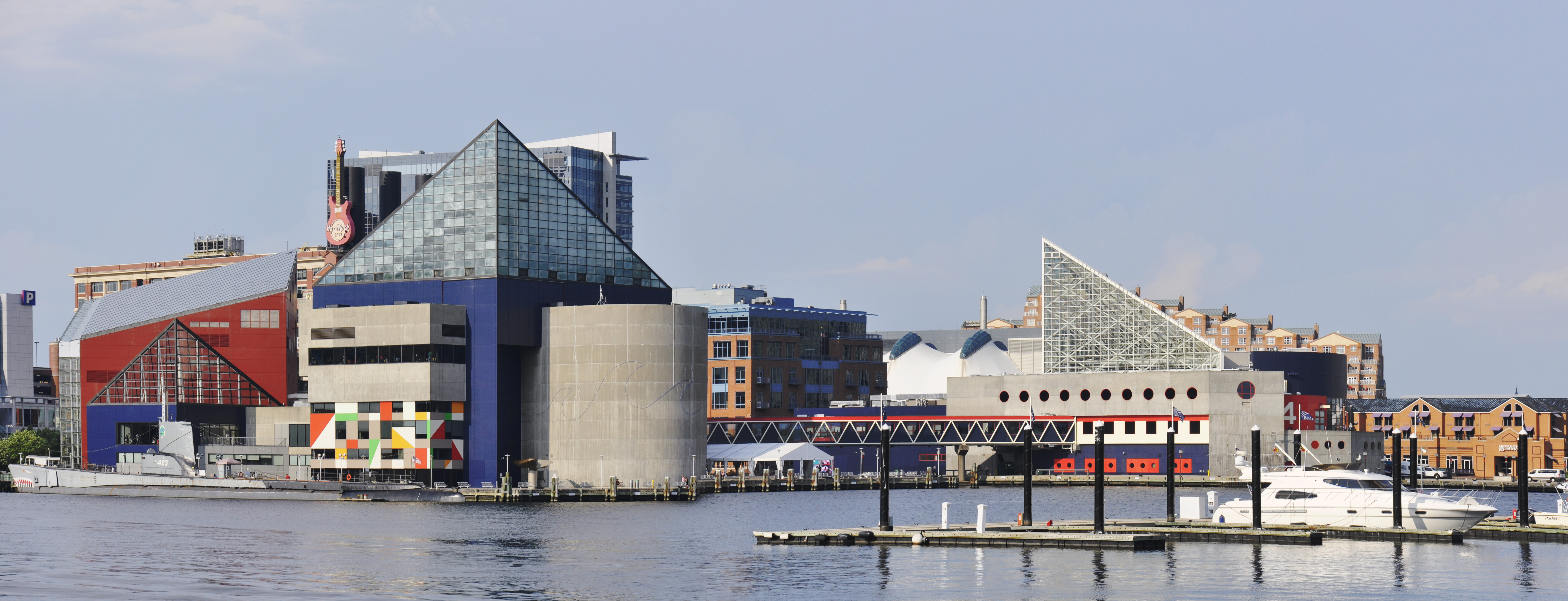 The Inner Harbor in Baltimore, Maryland, including National Aquarium, and USS Torsk submarine.